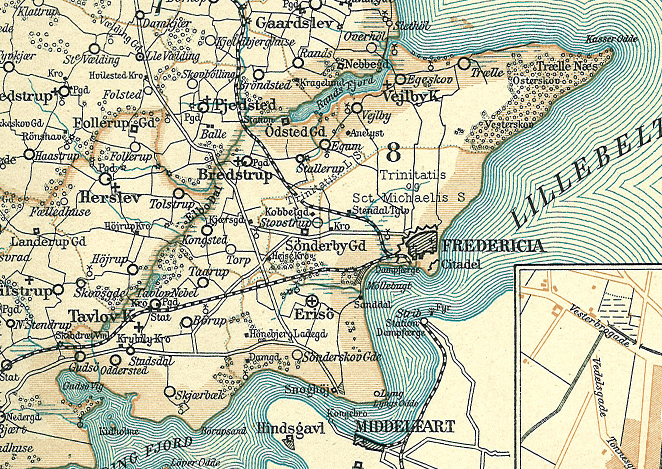 Map of Vejle County in Denmark